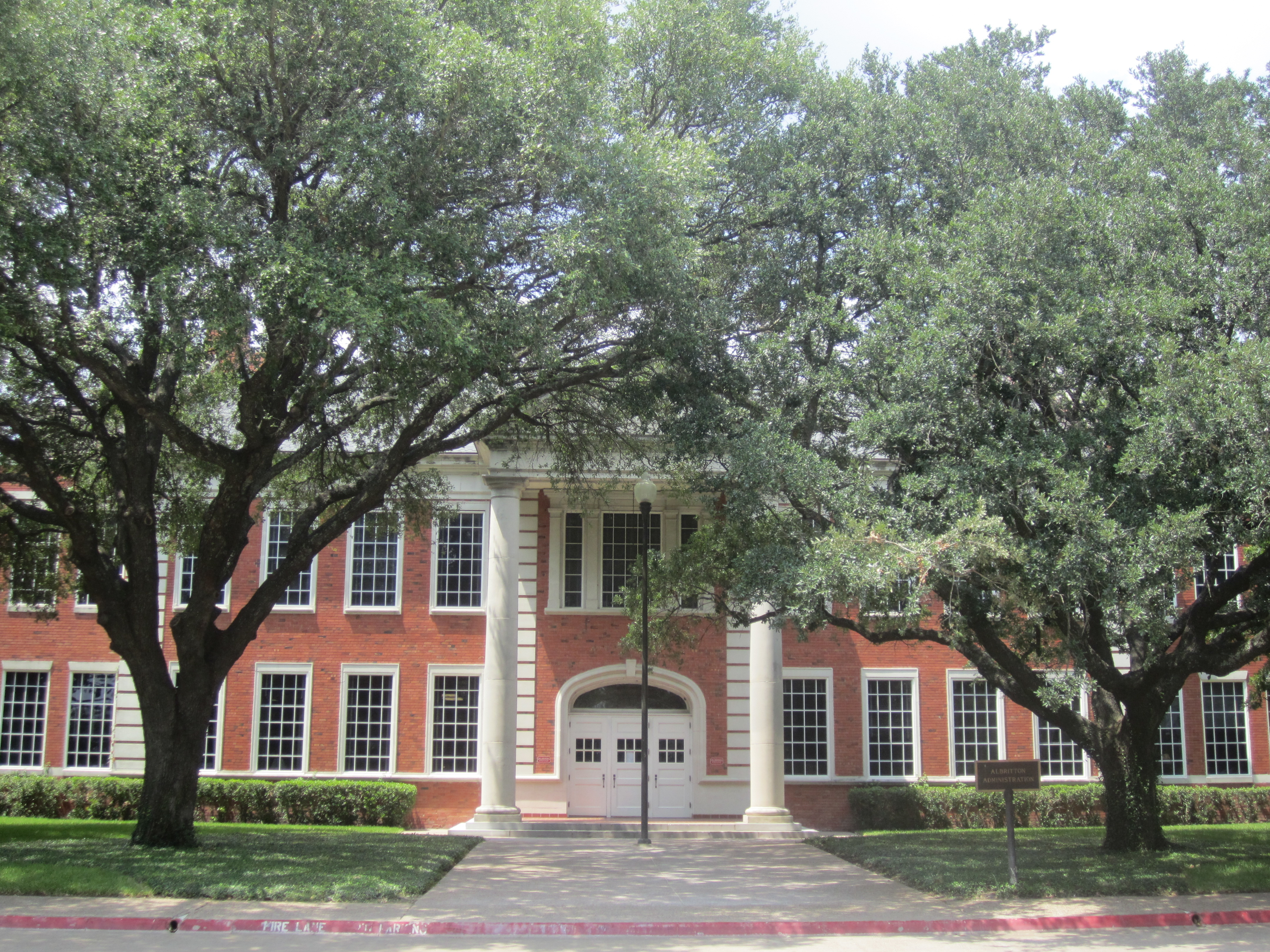 I took photo with Canon camera at Navarro College, Corsicana, TX.